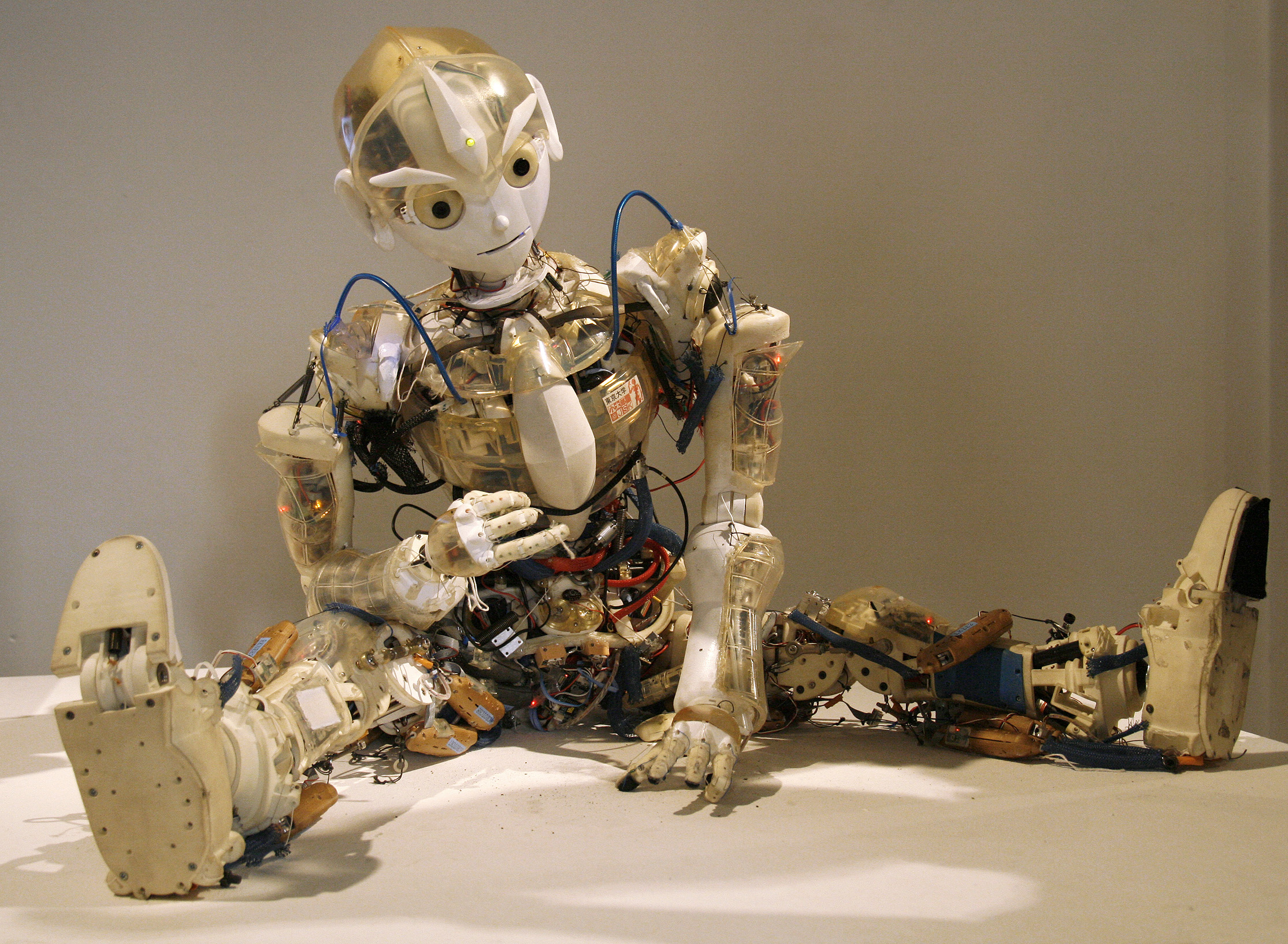 Kotaro, a humanoid roboter created at the University of Tokyo, presented at the University of Arts and Industrial Design Linz during the Ars Electronica Festival 2008.